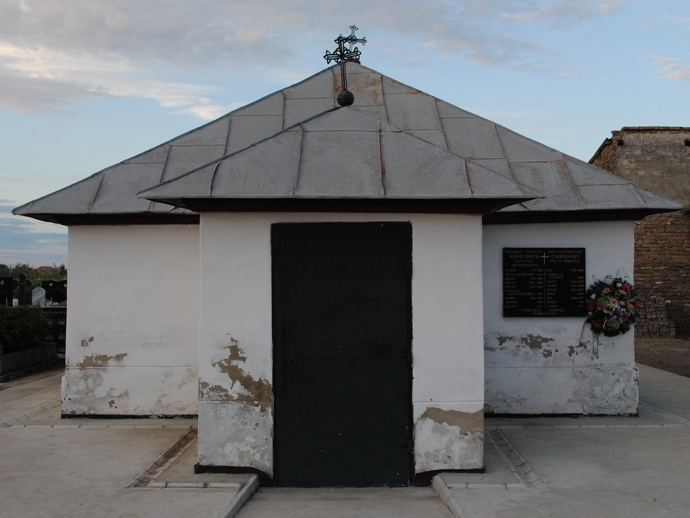 The Mausoleum is Cultural Heritage of Serbia. Grobnica je svrstana u nepokretno kulturno dobro od velikog znacaja.